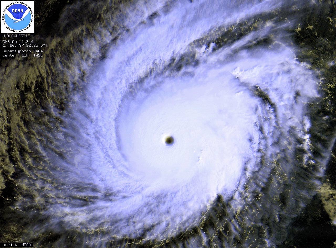 This is a satellite picture of Super Typhoon Paka at peak intensity.